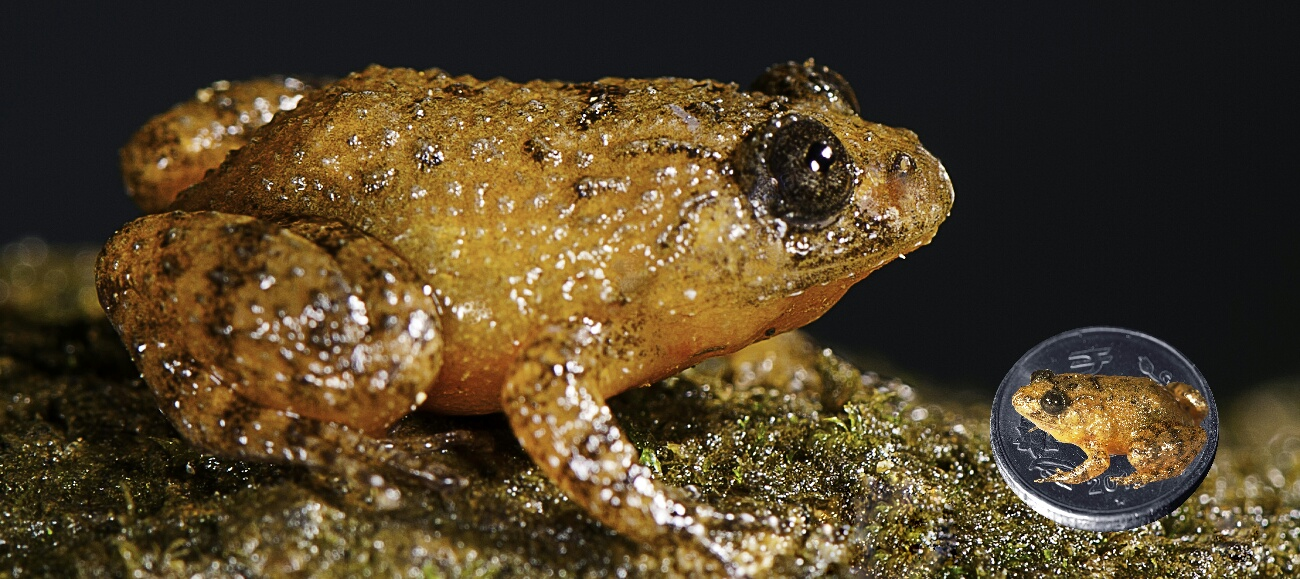 Dorsolateral view, in life and size (SVL 20.7 mm) in comparison to the Indian five-rupee coin (24 mm diameter).